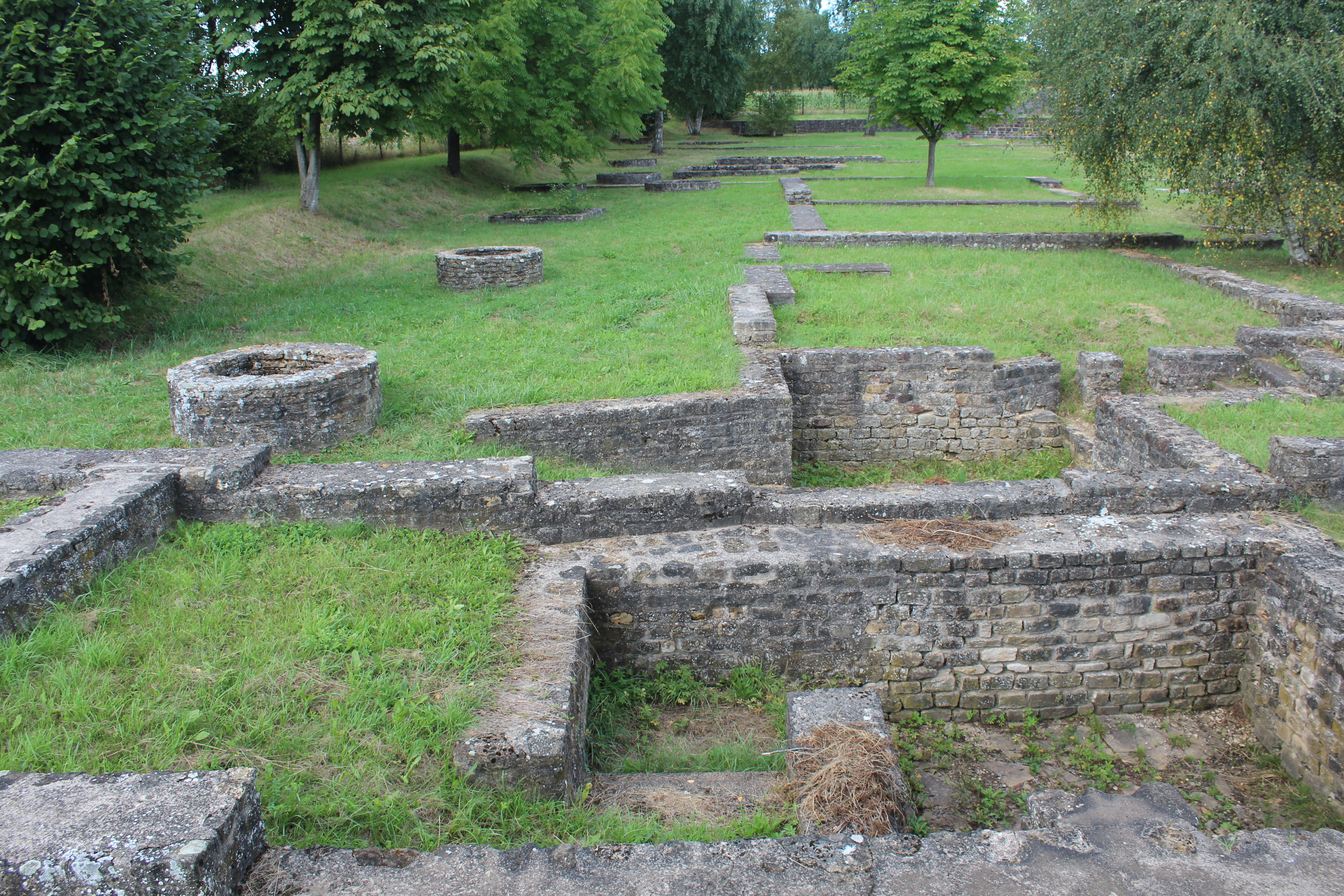 Remains of the Roman village Vicus Ricciacum on Pëtzel hill, Dalheim, Luxembourg.